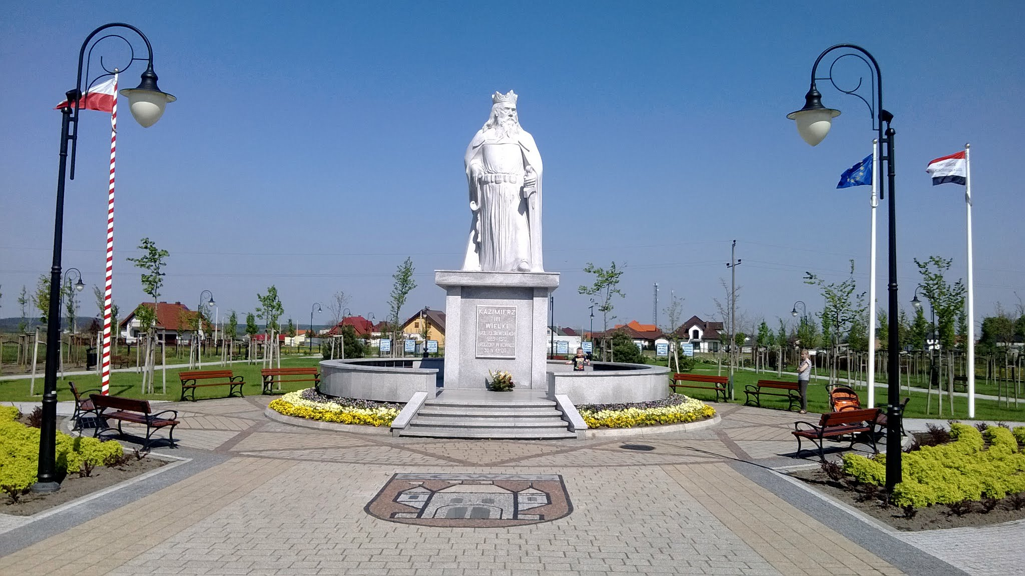 Kazimierz III Wielki monument in Kowal, Poland